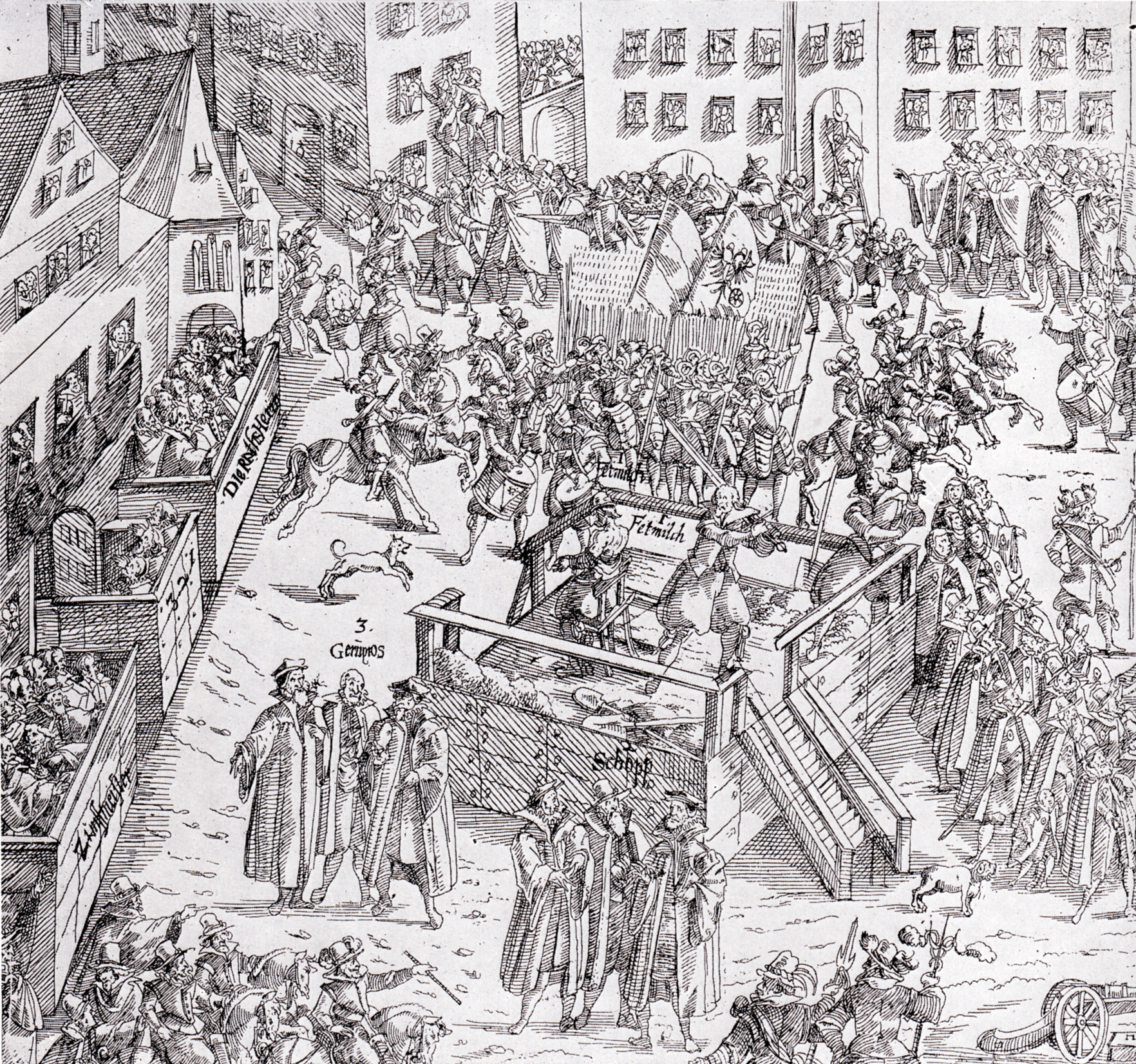 Fettmilch Riot: The execution of Vincent Fettmilch, Konrad Gerngroß, Konrad Schopp and Georg Ebel on February 28, 1616 at the Roßmarkt in Frankfurt